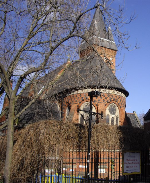 Church of St James the Less, Pimlico, England, viewed from Moreton Street